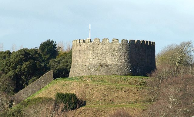 Keep, Trematon Castle. The keep at 1192732 seen from the path shown in 1192860. "Vaguely oval, 57 by 71.5 ft and 27 ft high to the rampart" (Pevsner, 1951). " The parapet is complete with the merlons solid, except for one".